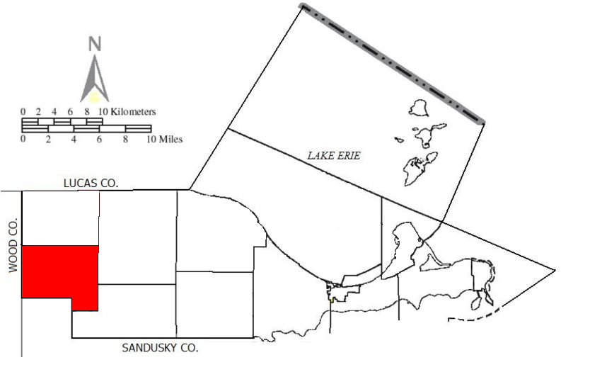 Made by US Census and modified by me